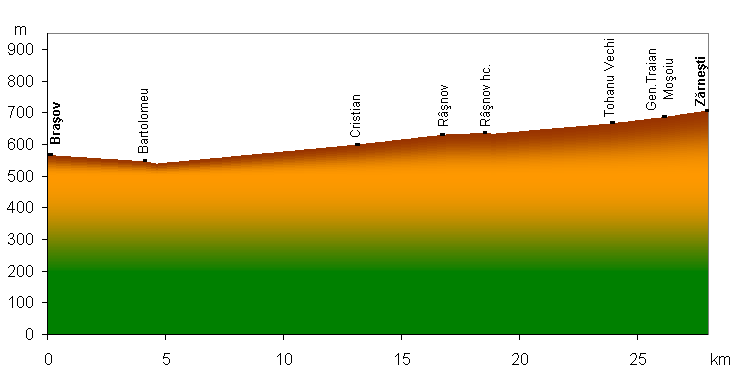 elevation profile of the railway track Brasov-Zarnesti